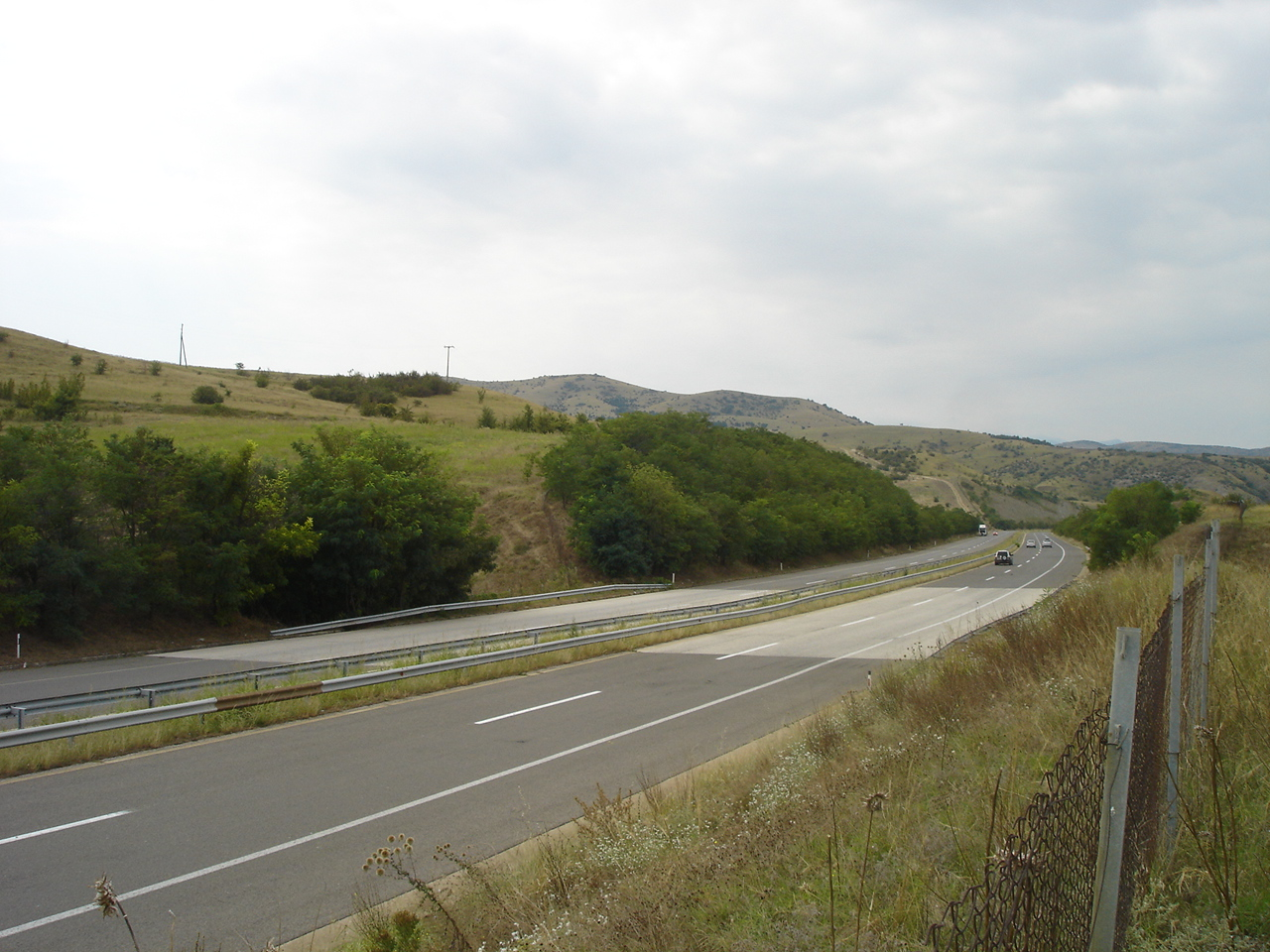 Alexander of Macedonia highway near Nogaevci (Gradsko)